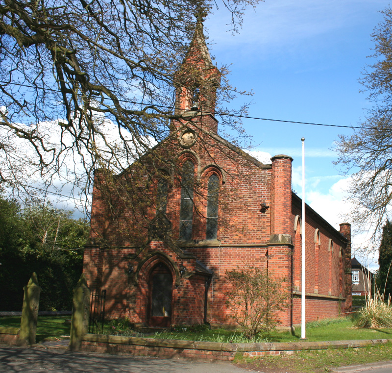 All Saints' parish church, Weston, Cheshire, seen from the southwest